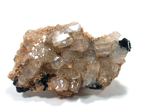 Beryl, Schorl Locality: Erongo Mountain, Usakos and Omaruru Districts, Erongo Region, Namibia (Locality at ) Size: small cabinet, 8 x 5.1 x 1.8 cm Goshenite (Beryl) with Schorl A rich plate thickly covered with glassy, lustrous, gemmy crystals to a 2.1 cm, some of them doubly-terminated, on muscovite matrix. This is a very beautiful, sparkly, gemmy piece.